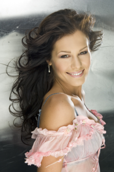 Jana Doležalová Miss Czech Republic 2004